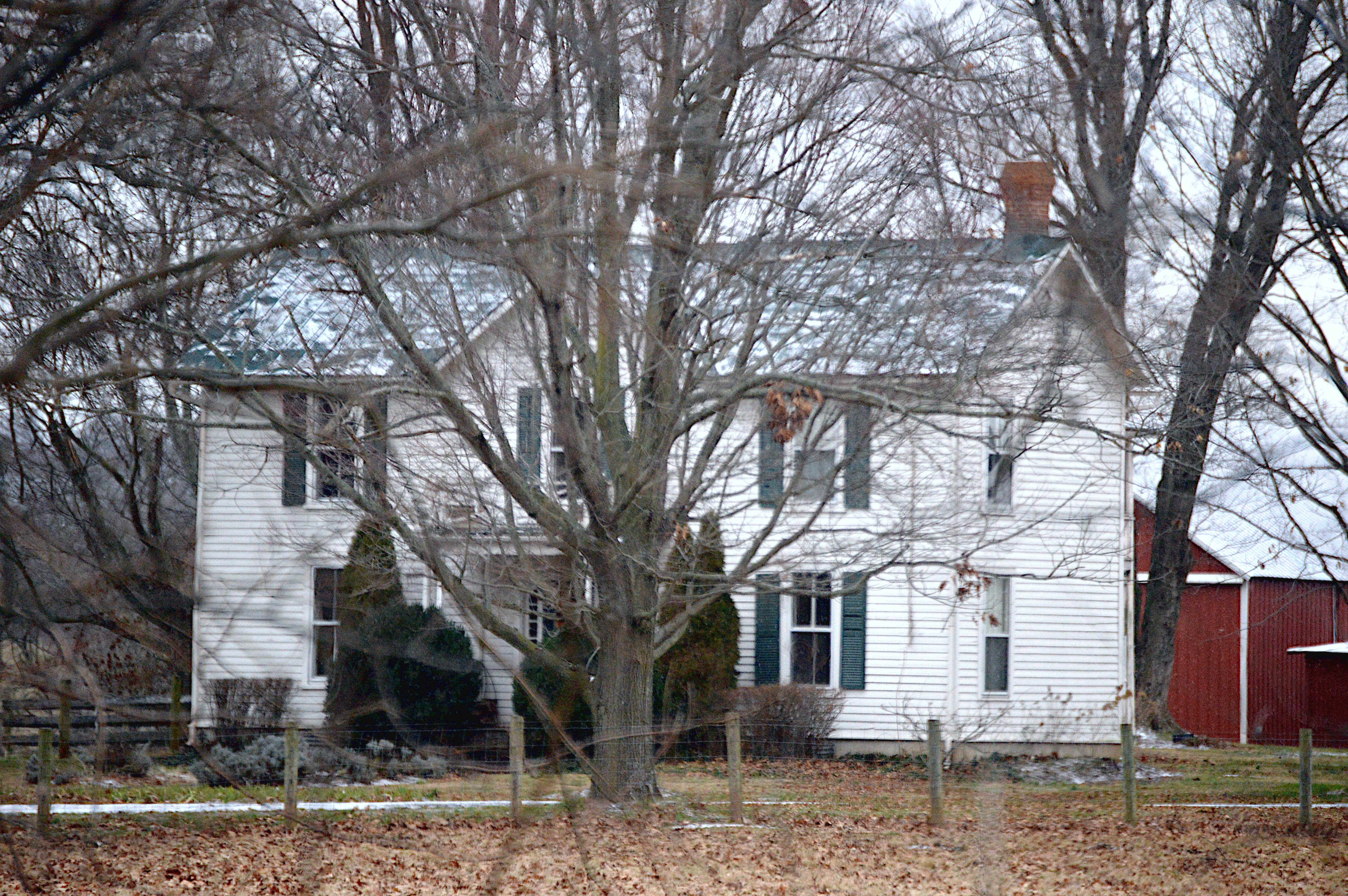 Through-the-trees view of the Croftburn Farmhouse, located along State Route 3 southeast of Culpeper in Culpeper County, Virginia, United States. The farmstead is listed on the National Register of Historic Places.